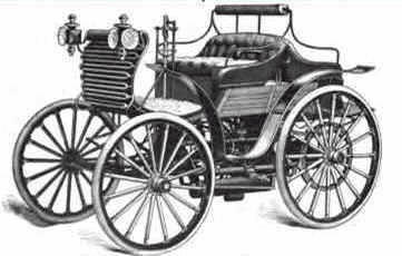 The famous Mueller-Benz automobile that was adapted from a German Benz Victoria to bad American roads. Conceived by Hieronymus Mueller, it was built in his shop.